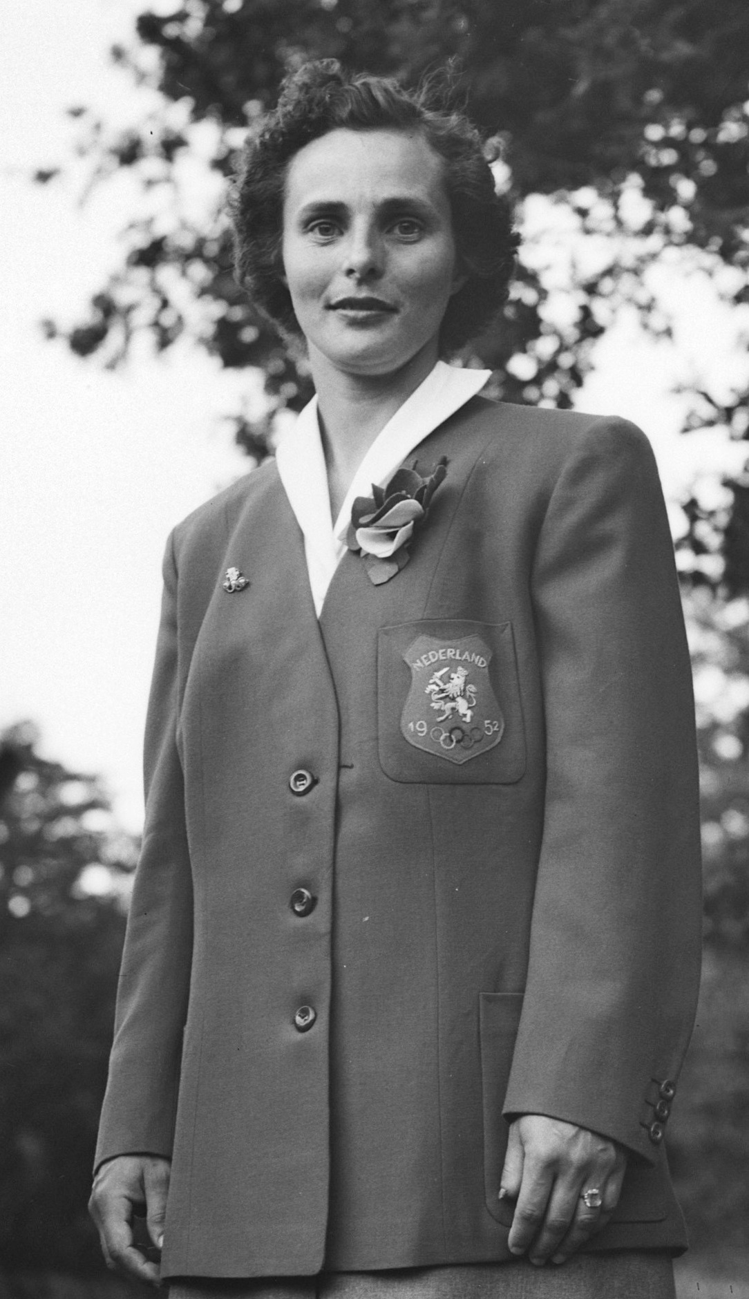 Olympic gymnast Jo Cox-Ladru